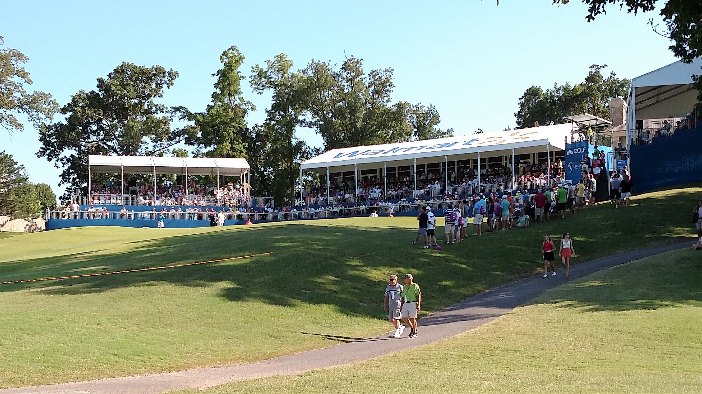 The viewing stands on the 18th hole of the Walmart Northwest Arkansas LPGA Championship